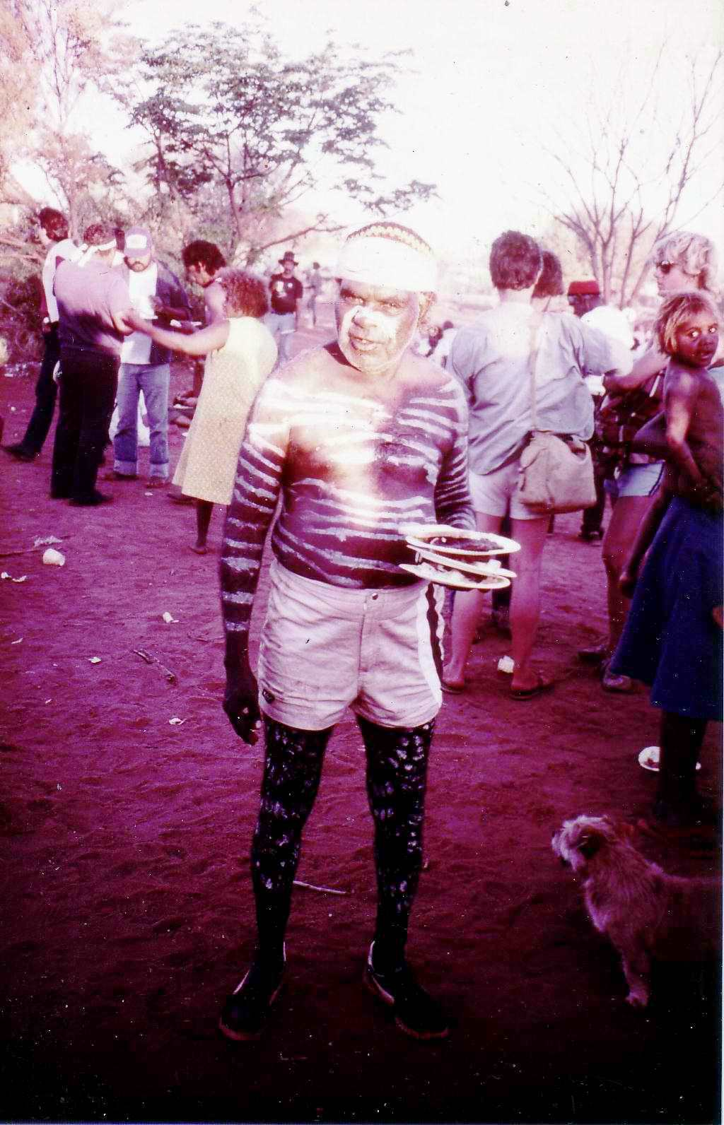 This photo was taken by me on 26 October 1985 at the Handback of title ceremony at Uluru.